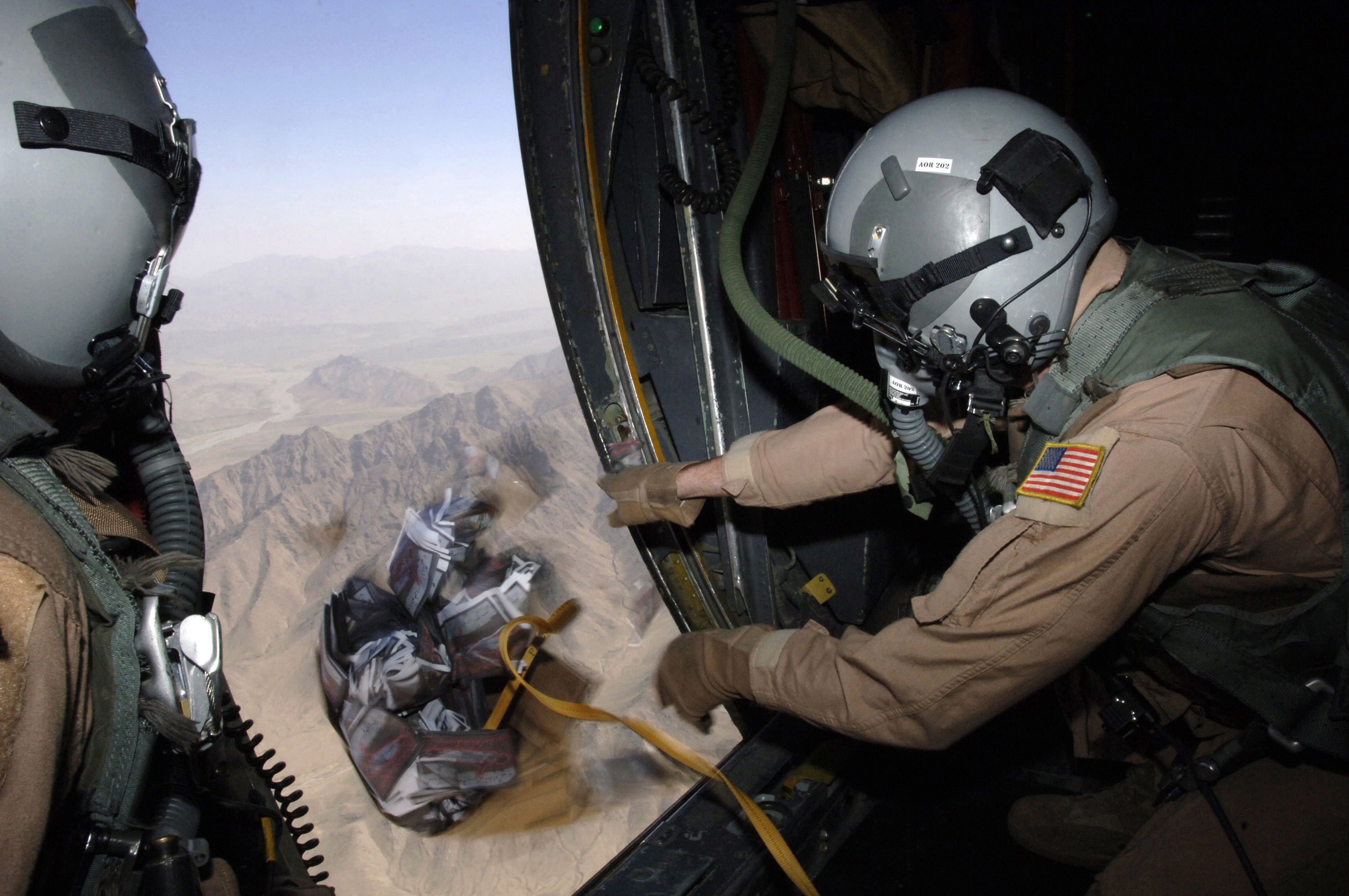 U.S. Air Force Airman 1st Class Josh Huffman (right) drops a box of 10,000 leaflets from a C-130 Hercules aircraft over the southeastern mountains of Afghanistan on March 7, 2007. The leaflets are being used to communicate with Taliban elements warning them not to interfere with coalition activities.